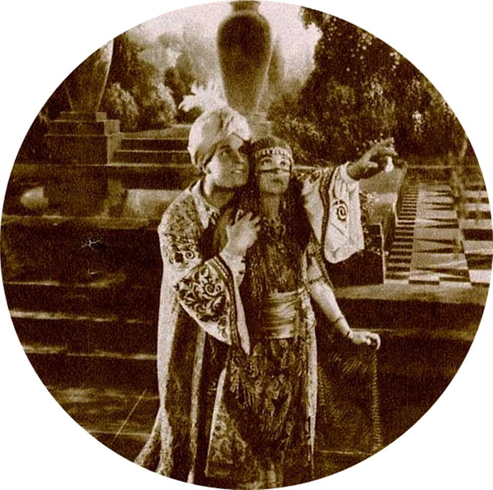 Still for the American film A Lover's Oath (1925) (also released as The Rubáiyát of Omar Khayyám) with Ramon Novarro and Kathleen Key, from page 16 of the March 30, 1922 Silverscreen. The film was shot in 1922 but was not released until 1925 when Novarro had obtained fame from his role in Ben Hur. As the film is now lost except for a short clip of less than a minute in length, it is not known if this image was in the final film. The film had intertitles based upon verses from the book. The caption of this still in its 1922 publication stated:"Yet ah, that Spring should vanish with the Rose!That Youth's sweet scented manuscript should close!"